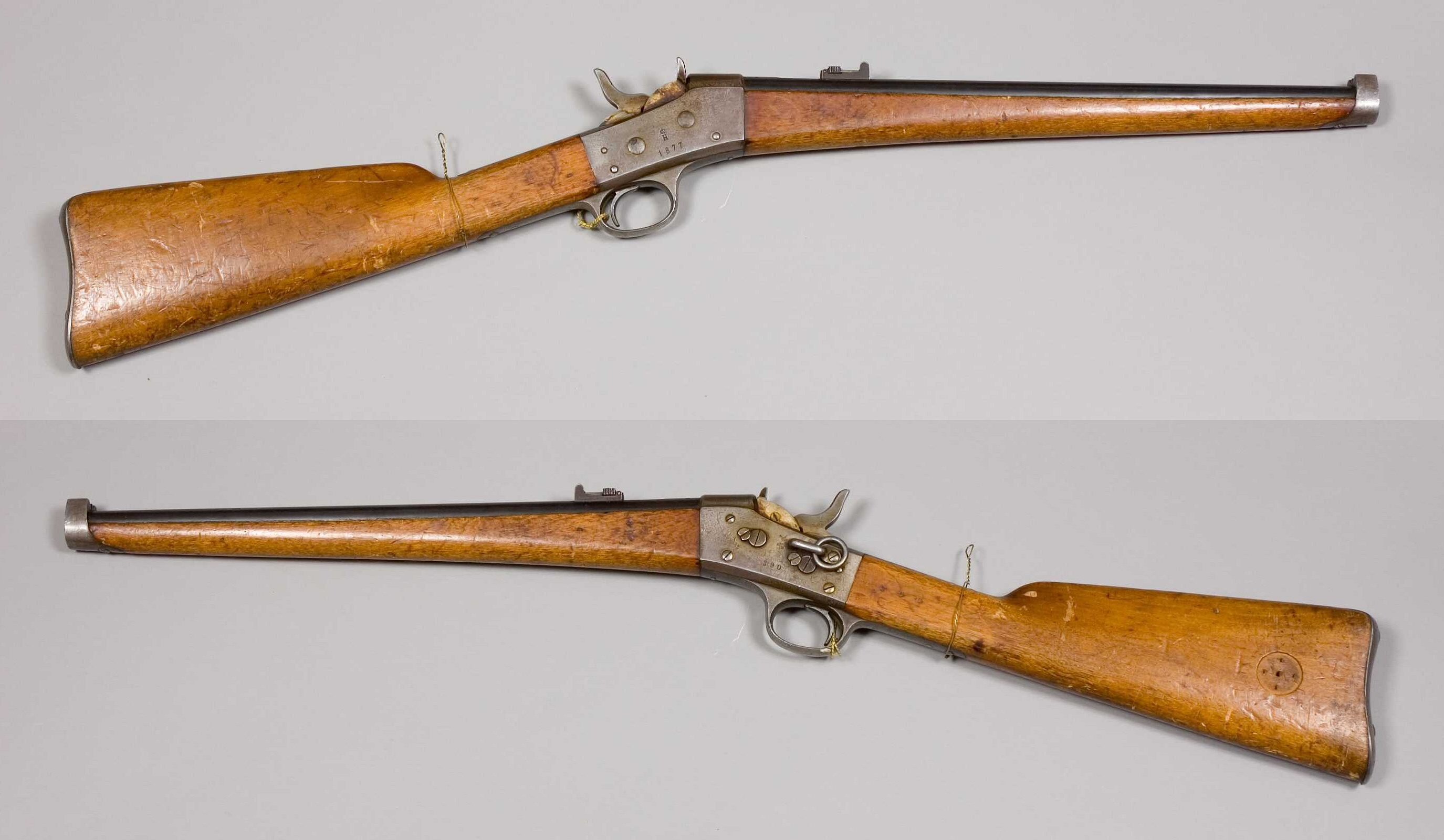 Swedish carbine m/1870, Remington rolling block. Made by Husqvarna Vapenfabrik AB, Sweden.